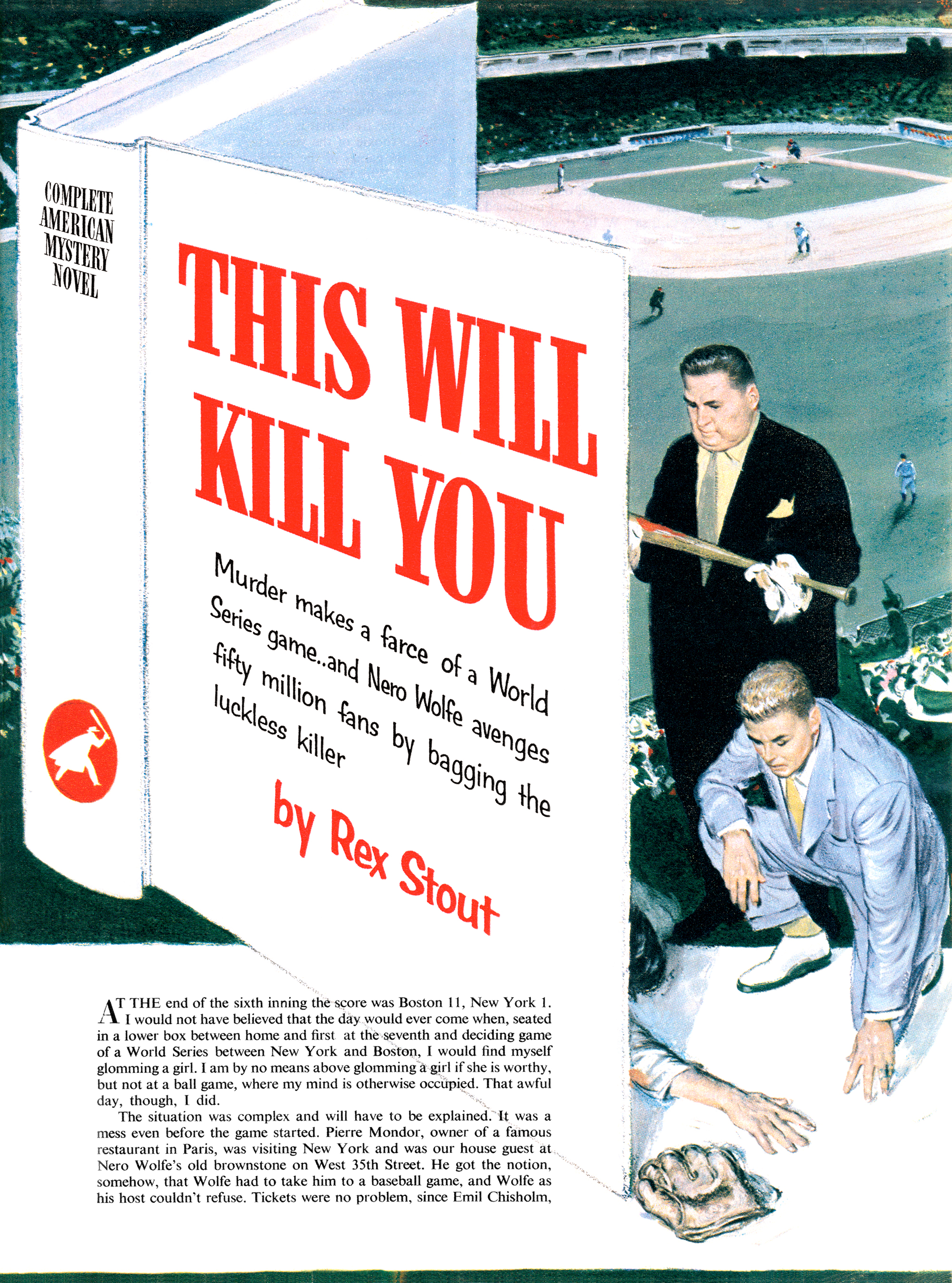 Lead illustration from The American Magazine printing of "This Won't Kill You", a Nero Wolfe short story by Rex Stout that first appeared under the title "This Will Kill You"